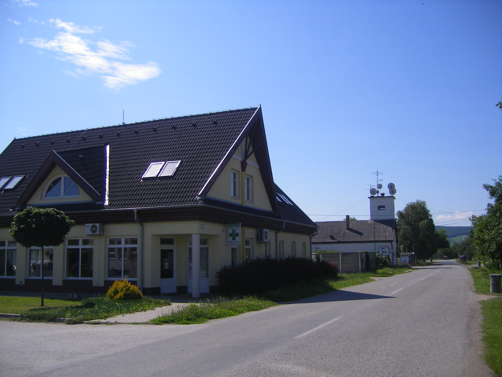 Salka/Ipolyszalka - street view